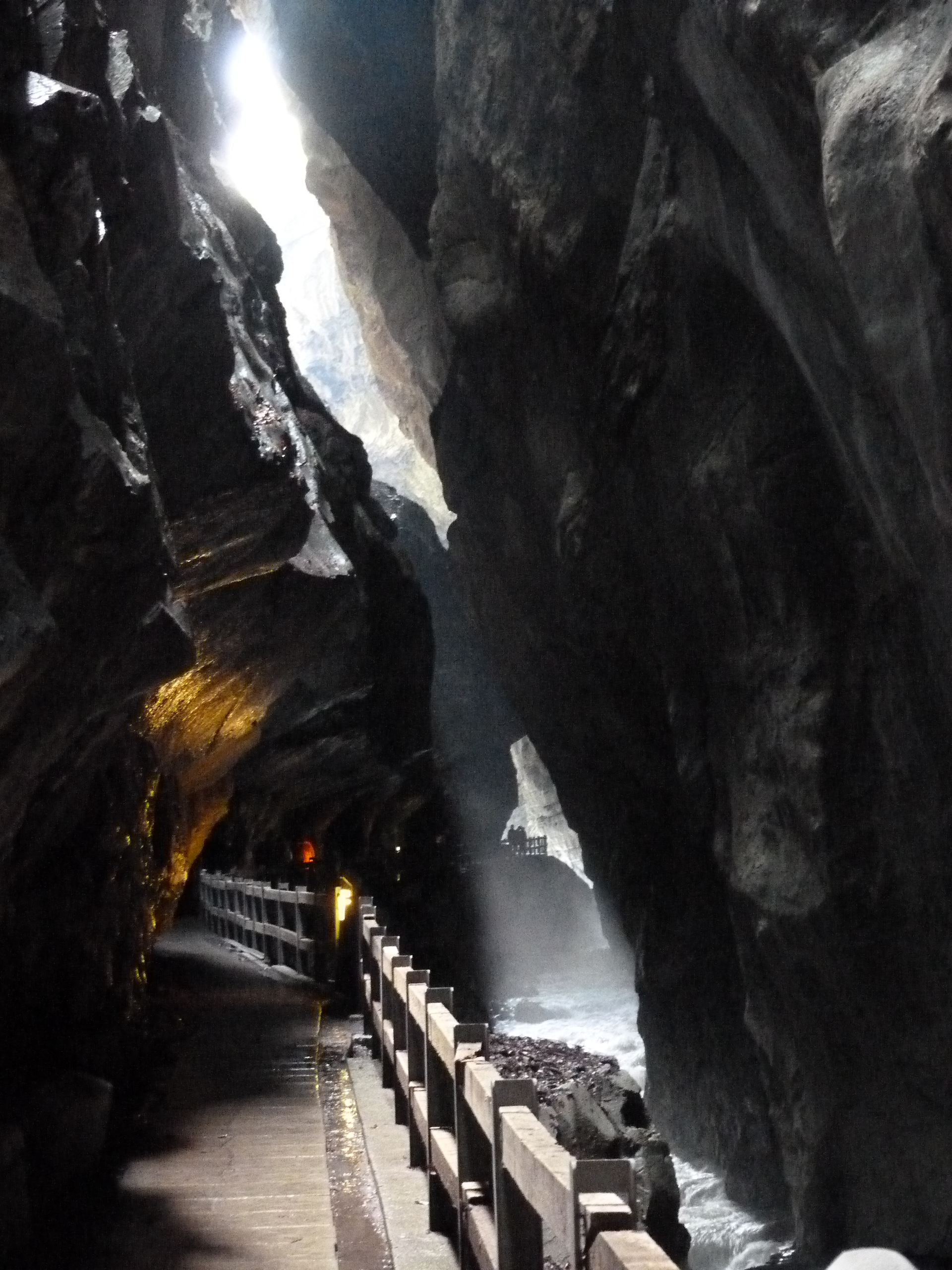 The narrow gorge of the Tamina River in St. Gallen canton/Switzerland near a warm water spring in May 2013